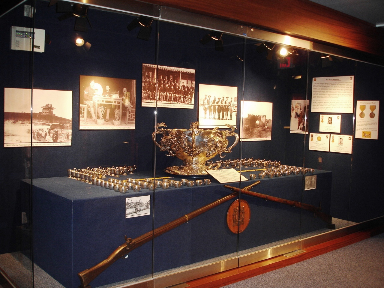 Liscum Bowl on display at 2nd Infantry Division Museum, Camp Red Cloud, Korea. The bowl was made out of silver awarded to the 9th Infantry Division by the Chinese government after the Boxer Rebellion.